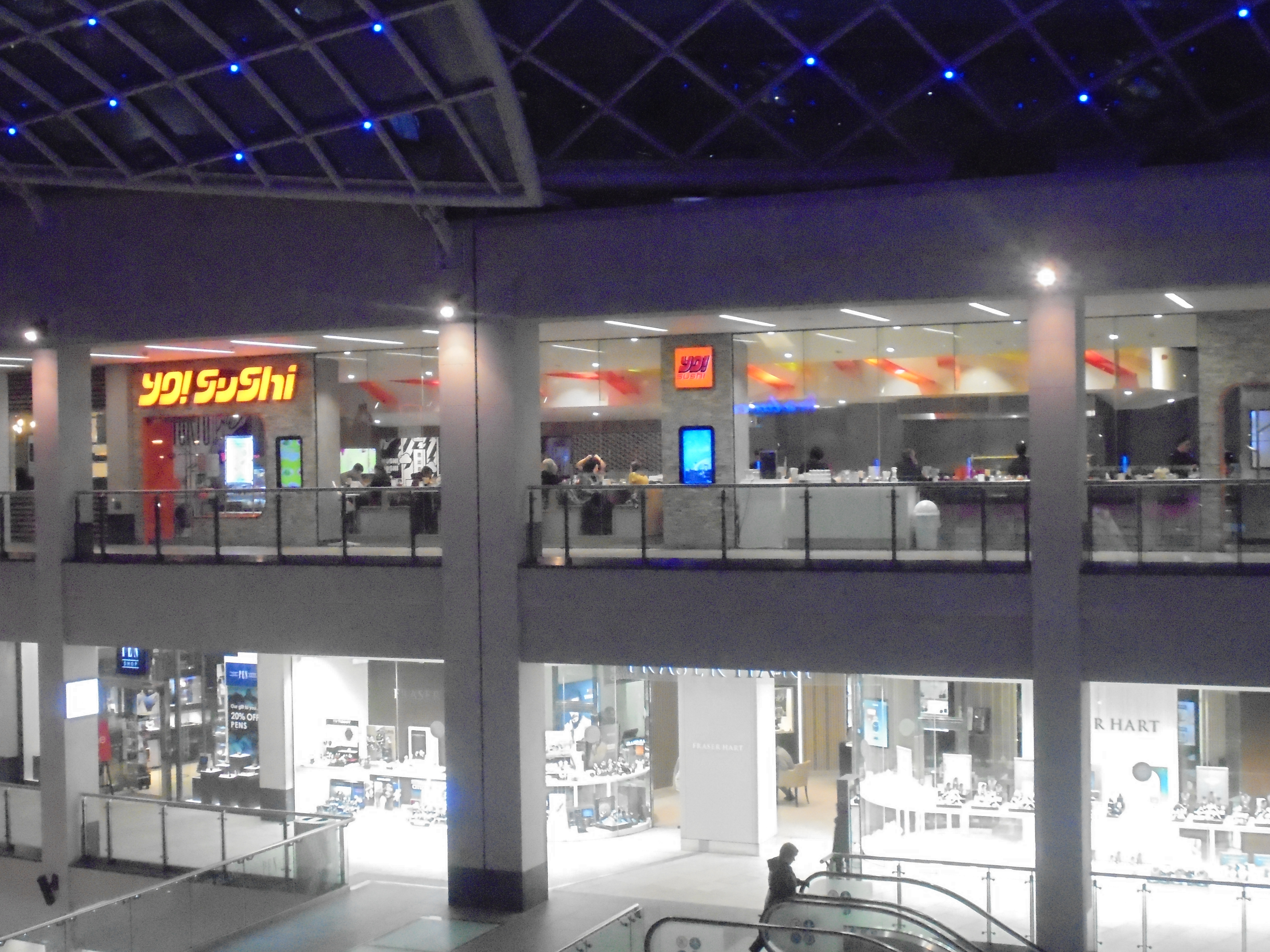 Yo! Sushi, Trinity Leeds, West Yorkshire. Taken on the evening of Tuesday the 12th March 2019.